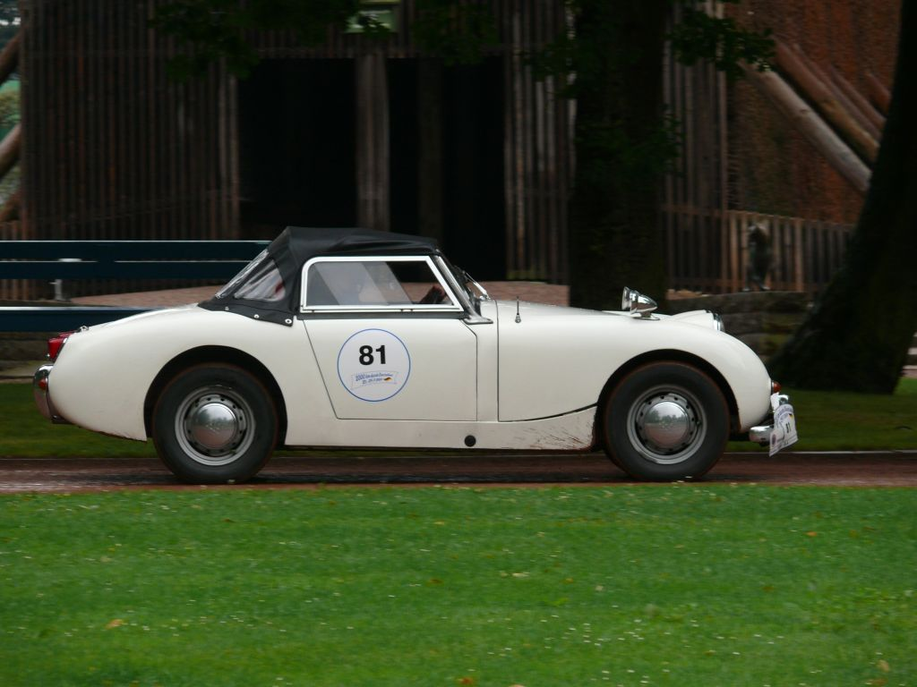 Austin Healey 3000 Mk I